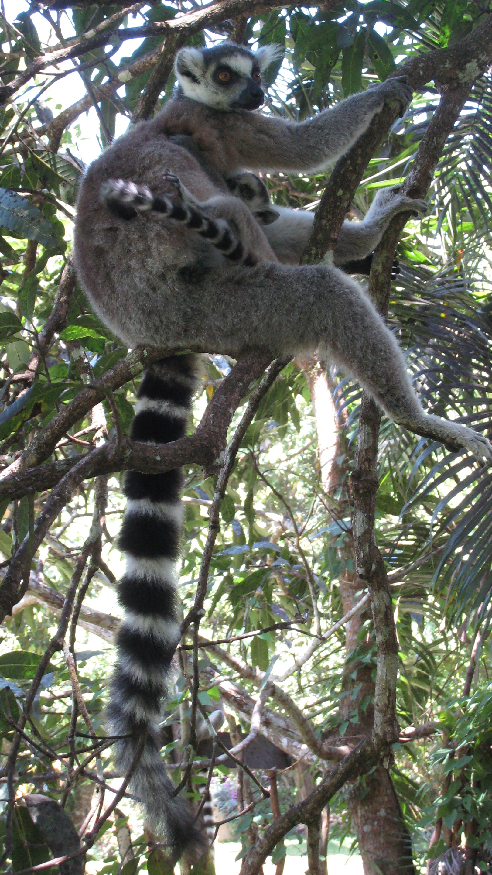 Lemur catta nursing its offspring in a tree. Photo taken at Nahampoana Reserve near Fort Dauphin, Madagascar.